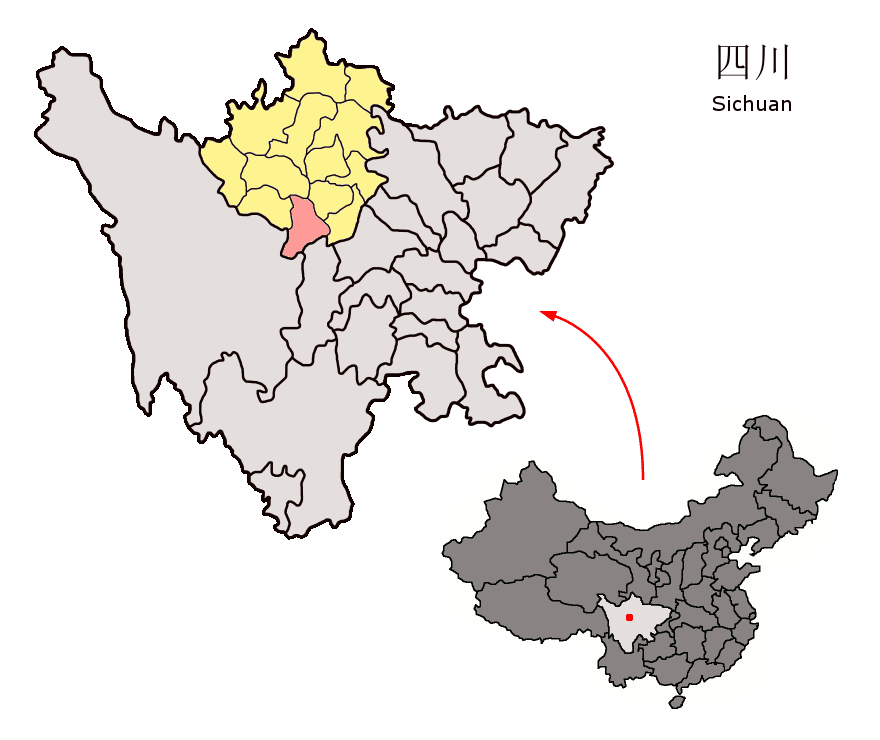 Location of Xiaojin County (pink) and Ngawa Prefecture (yellow) within Sichuan province of China Map drawn in september 2007 using various sources, mainly : Sichuan province administrative regions GIS data: 1:1M, County level, 1990 Sichuan Counties map from